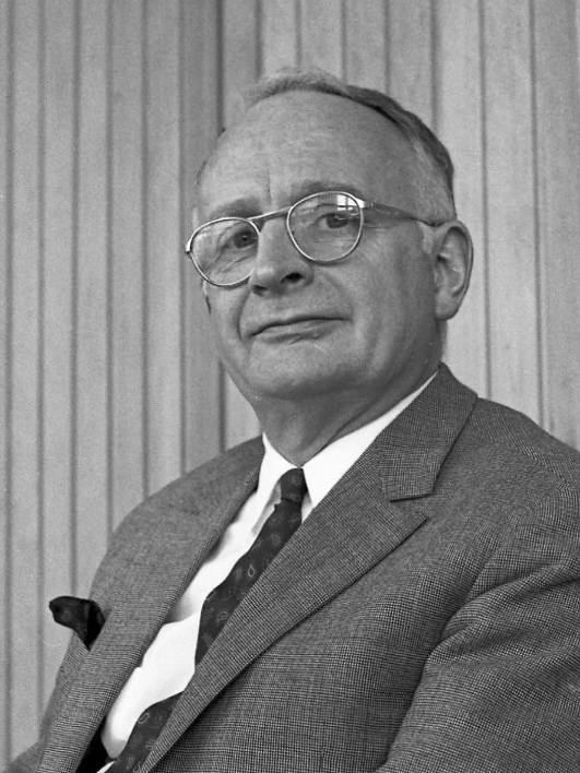 Aad van Wijngaarden rond 1978.